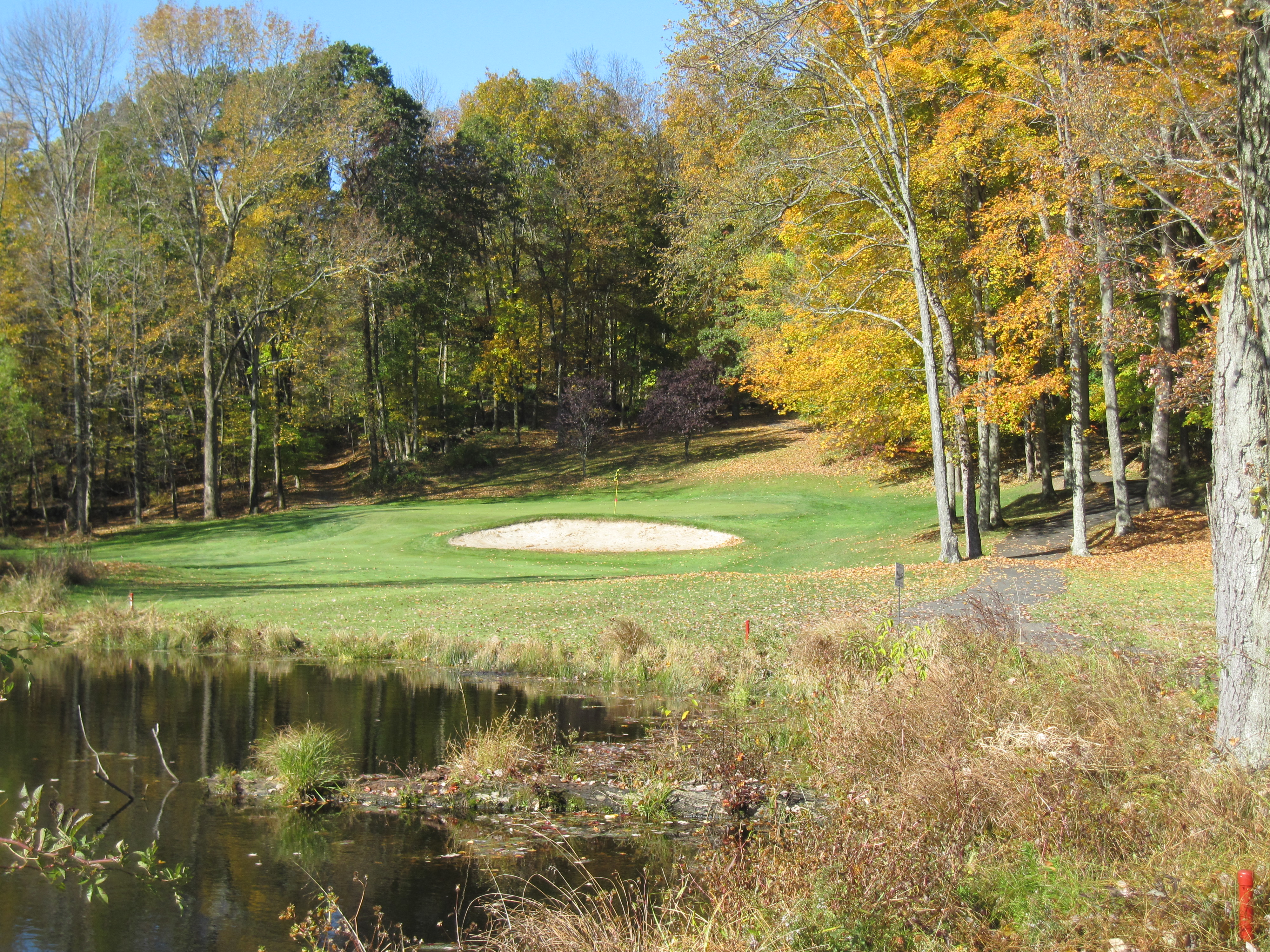 This is a picture from the Ridgefield Golf Course hole number twelve. This is a par three and the picture is taken on the bridge to the hole.